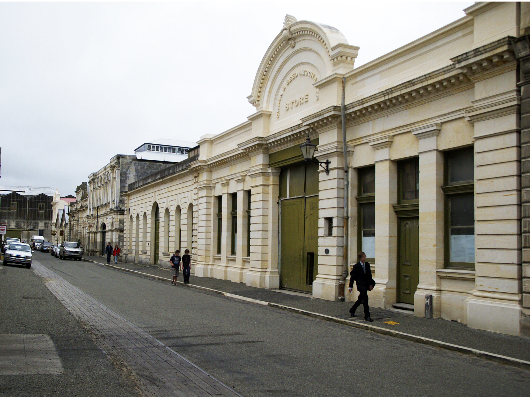 Neill Brothers' Store, Oamaru, South Island, New Zealand (build 1882) 12 Harbour Street, Oamaru NZ Historic Places Trust registered, list number 4647